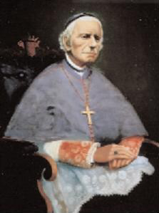 Monsignor Clément Bonnand - Vicar Apostolic Emeritus of Pondicherry and Titular Bishop Emeritus of Druzipara